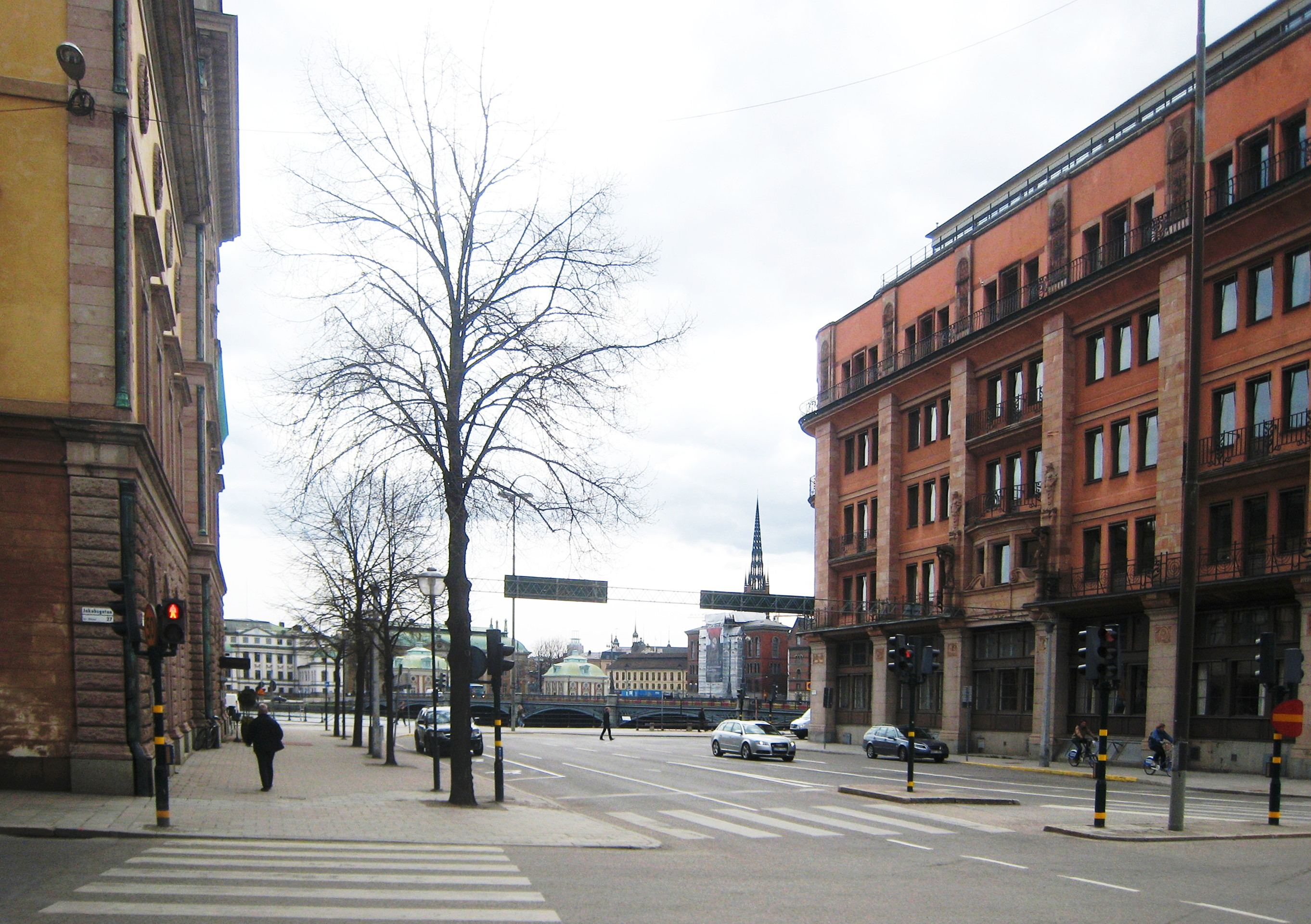 Rödbodtorget 2010.